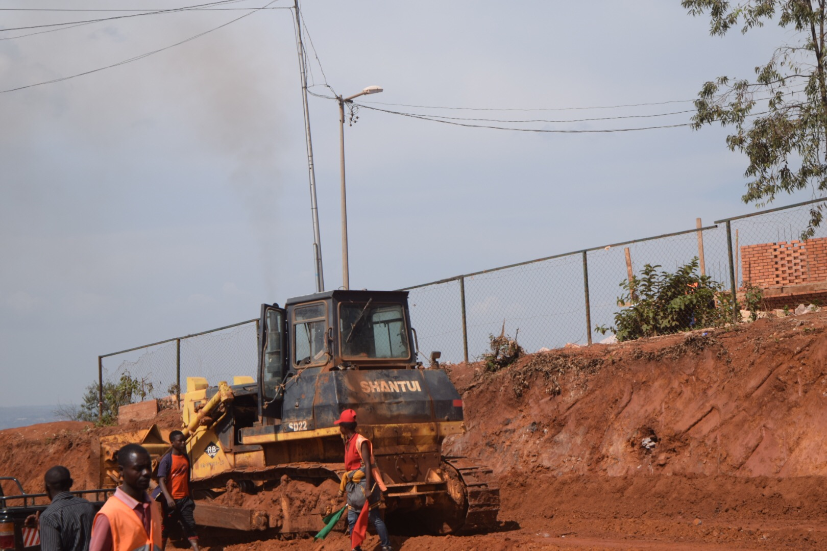 Under construction of roads in Rwanda by the use of tractors Kinyarwanda: Ubwubatsi bw’umuhanda hifashishijwe imodoka yubwukatsu bwayo. This is an image with the theme "Africa on the Move or Transport" from: Rwanda